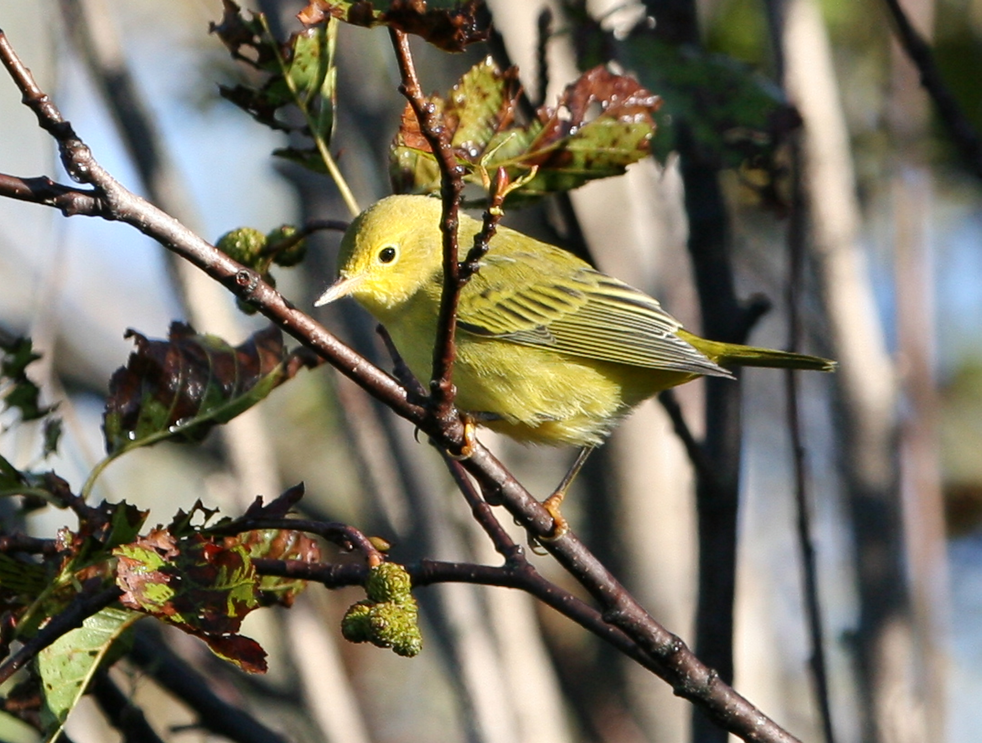 Yellow Warbler Dendroica aestiva (syn. D. petechia aestiva) Photo was taken at BLM Campbell Tract, Anchorage, Alaska